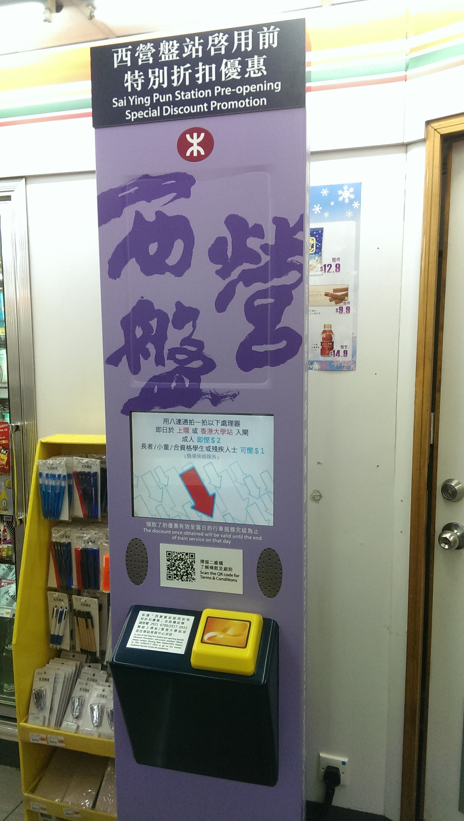 SAI YING PUN STATION PRE-OPENING SPECIAL DISCOUNT MACHINE